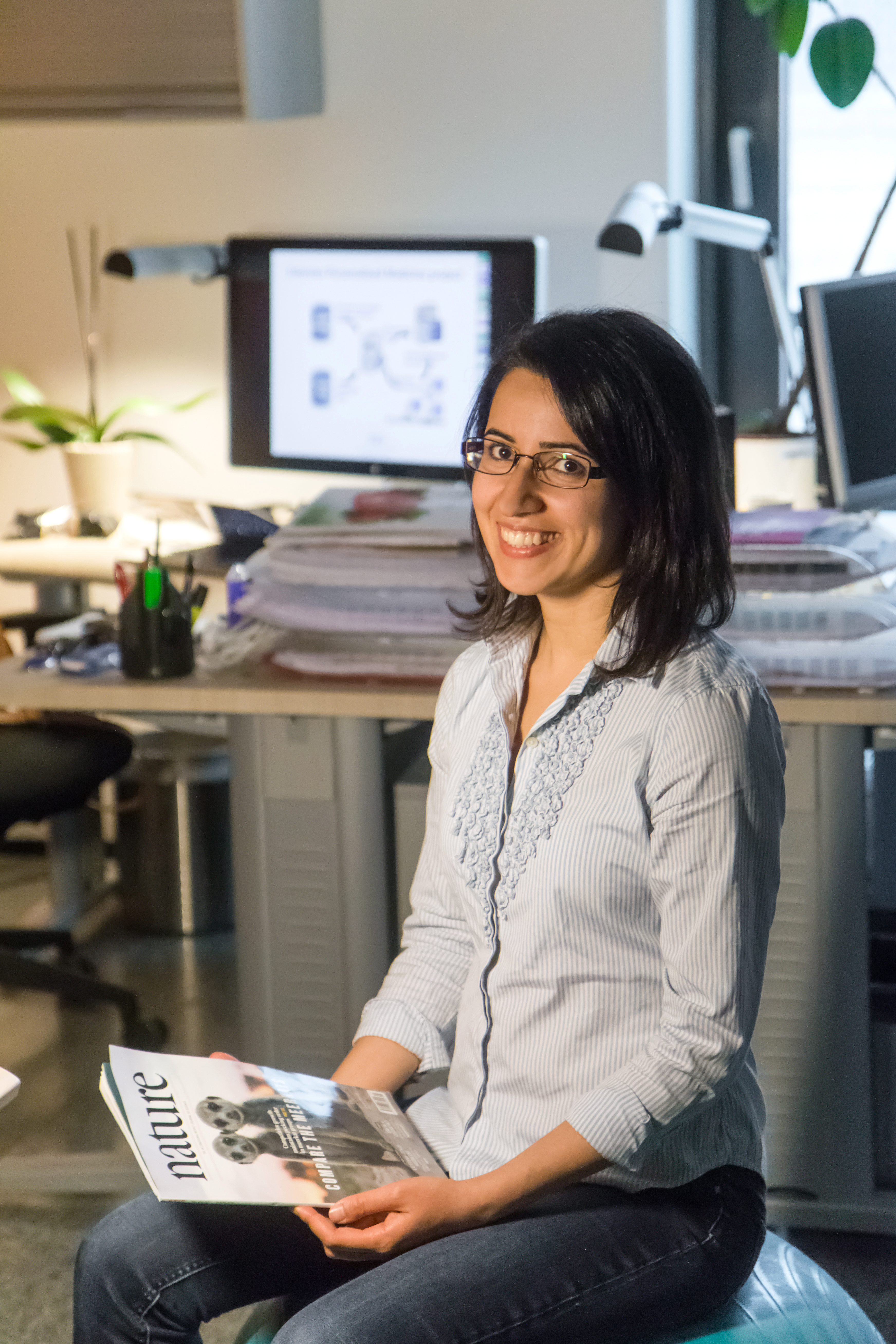 Lili Azin Milani (PhD), Senior Research Fellow of Estonian Genome Centre, University of Tartu.